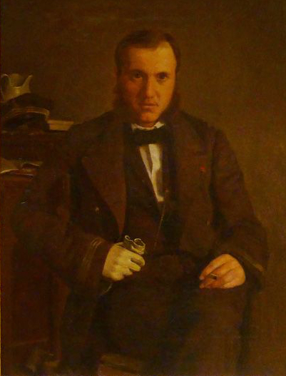 Sébastien Lespès, admiral